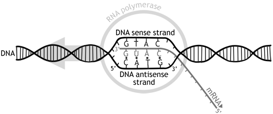 simple DNA transcription diagram featuring the sense and antisense strands of DNA and the production of messenger RNA via RNA polymerase.